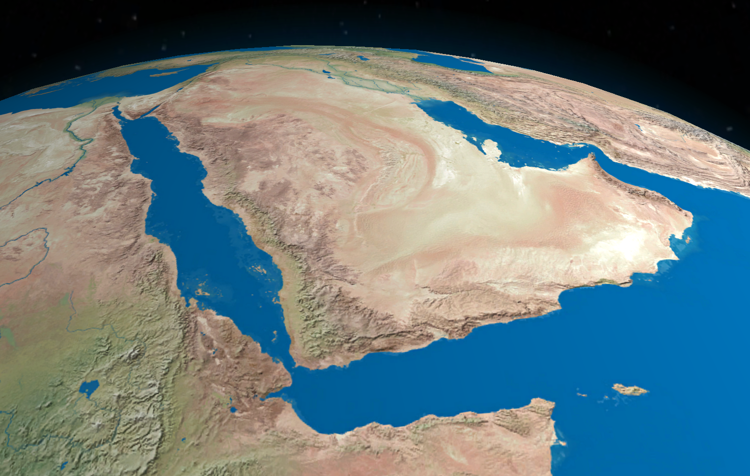 Digital rendering of the satellite view of Arabian Peninsula. This image has been rendered in the Globe Master geography game. For the globe texture, Whole world - land and oceans composite image was used, created by NASA/Goddard Space Flight Center (public domain).